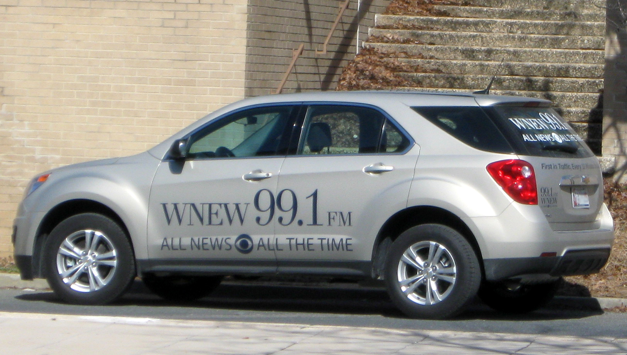 2010-2012 Chevrolet Equinox photographed in Washington, D.C., USA.